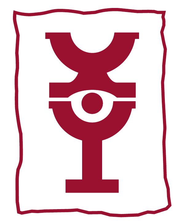 logo del MWF